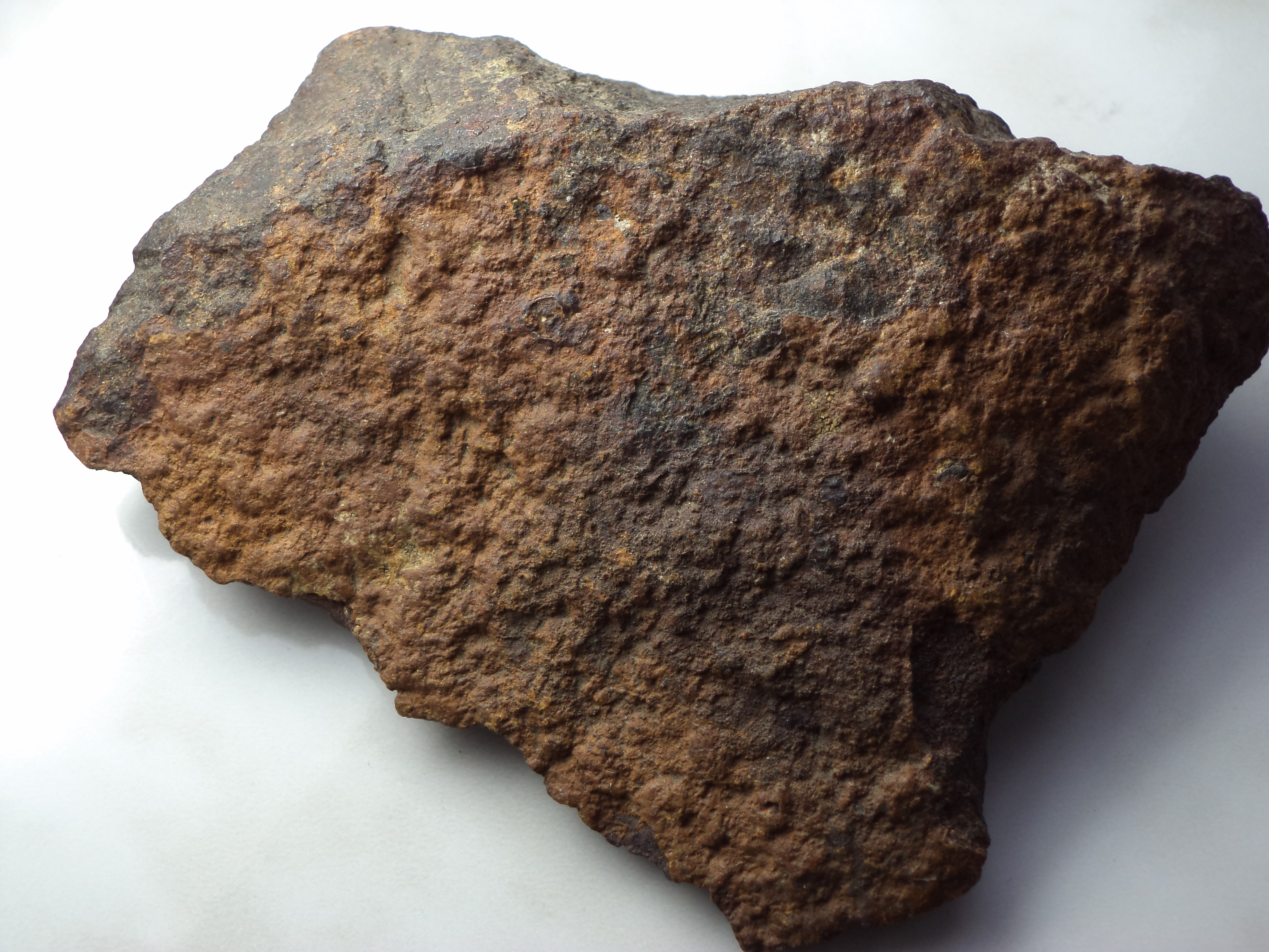 Meteorite Sukhoj Liman; chondrite H4/ 5 (fragment meteorite, mass of 48 kilogrammes); found in 1987 near Odessa.